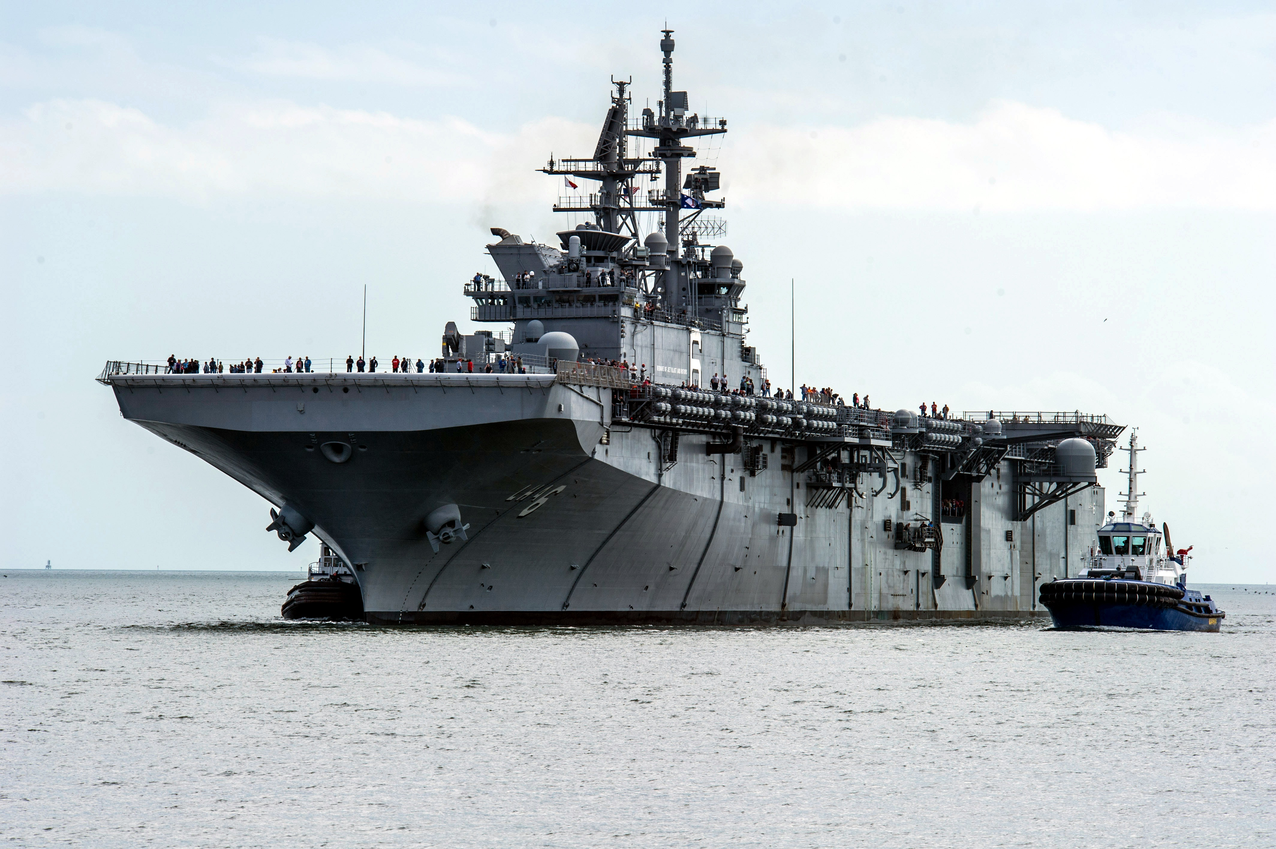 The U.S. Navy amphibious assault ship USS America (LHA-6) returns to Huntington Ingalls Shipyard, Pascagoula, Mississippi (USA), after completing sea trials. During the trials, the ship's main propulsion, communications, steering, navigational and radar systems were tested for the first time at sea. America will be the first ship of its class, replacing the Tarawa-class of amphibious assault ships.